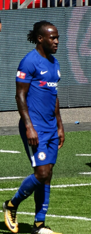 Community Shield at Wembley 6.8.17